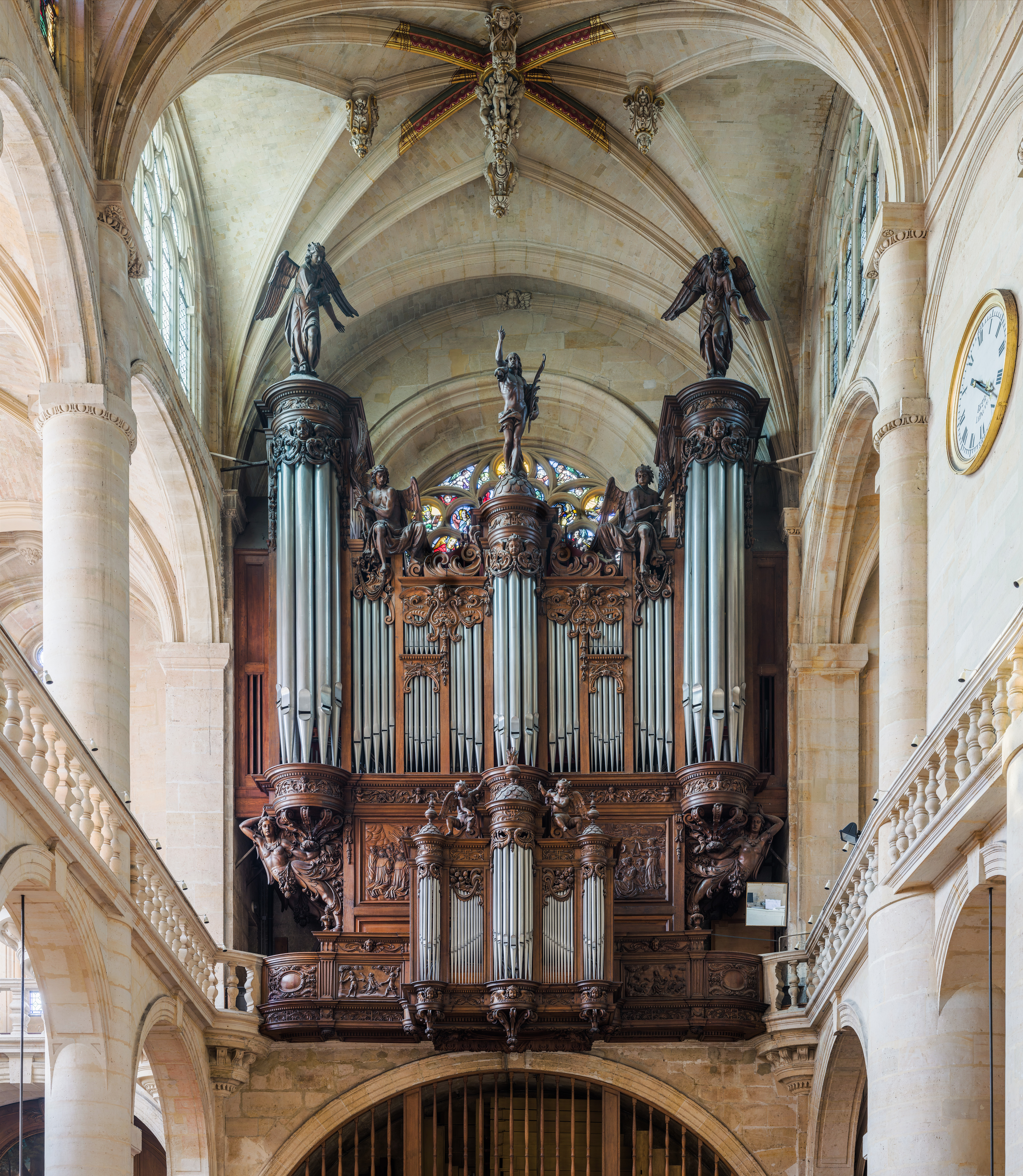 The organ of St-Etienne-du-Mont in Paris, France.